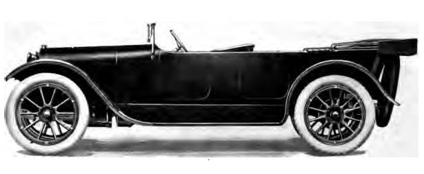 Image is of a 1916 Elcar Automobile. It comes from the Automobile Year Book (1916) published by the Automobile department of McClure's magazine, The McClure Publications , inc. The scanned book is part of the Internet Archive collection. The notes at this site describe the source as: Book digitized by Google from the library of the University of Michigan and uploaded to the Internet Archive by user tpb.